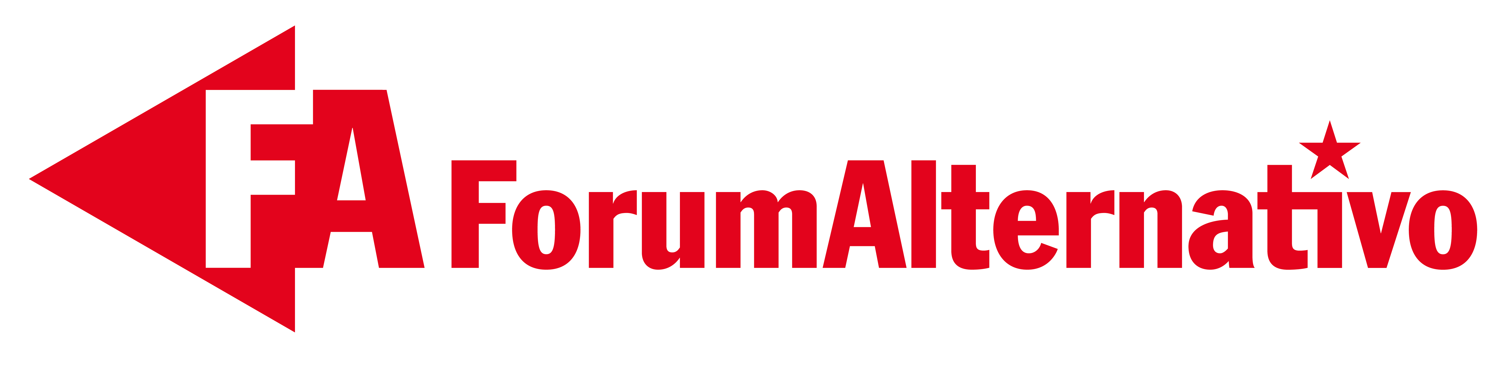 Official logo ForumAlternativo 2019-.